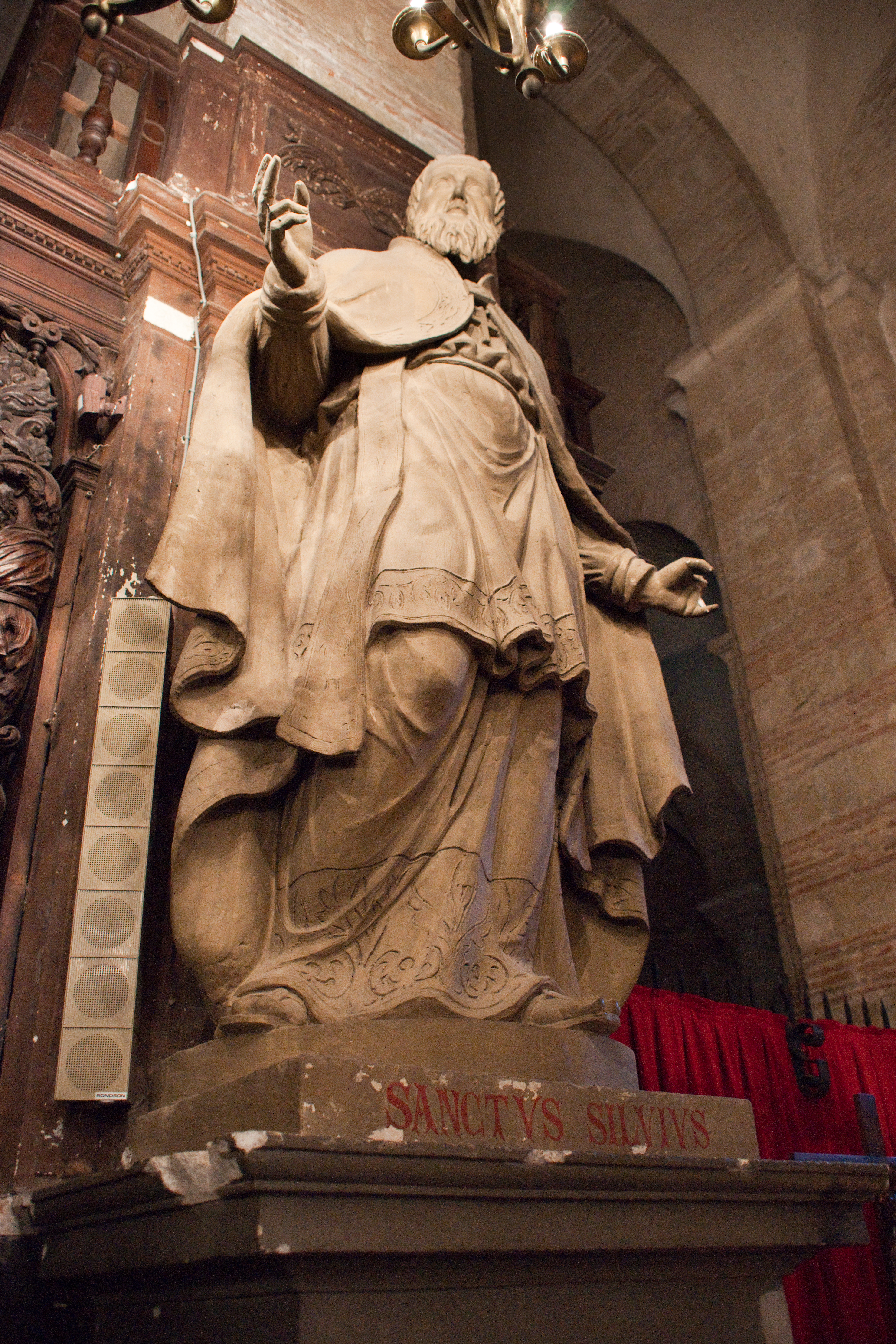 Statue of Saint Sylvius in the Basilique Saint-Sernin in Toulouse